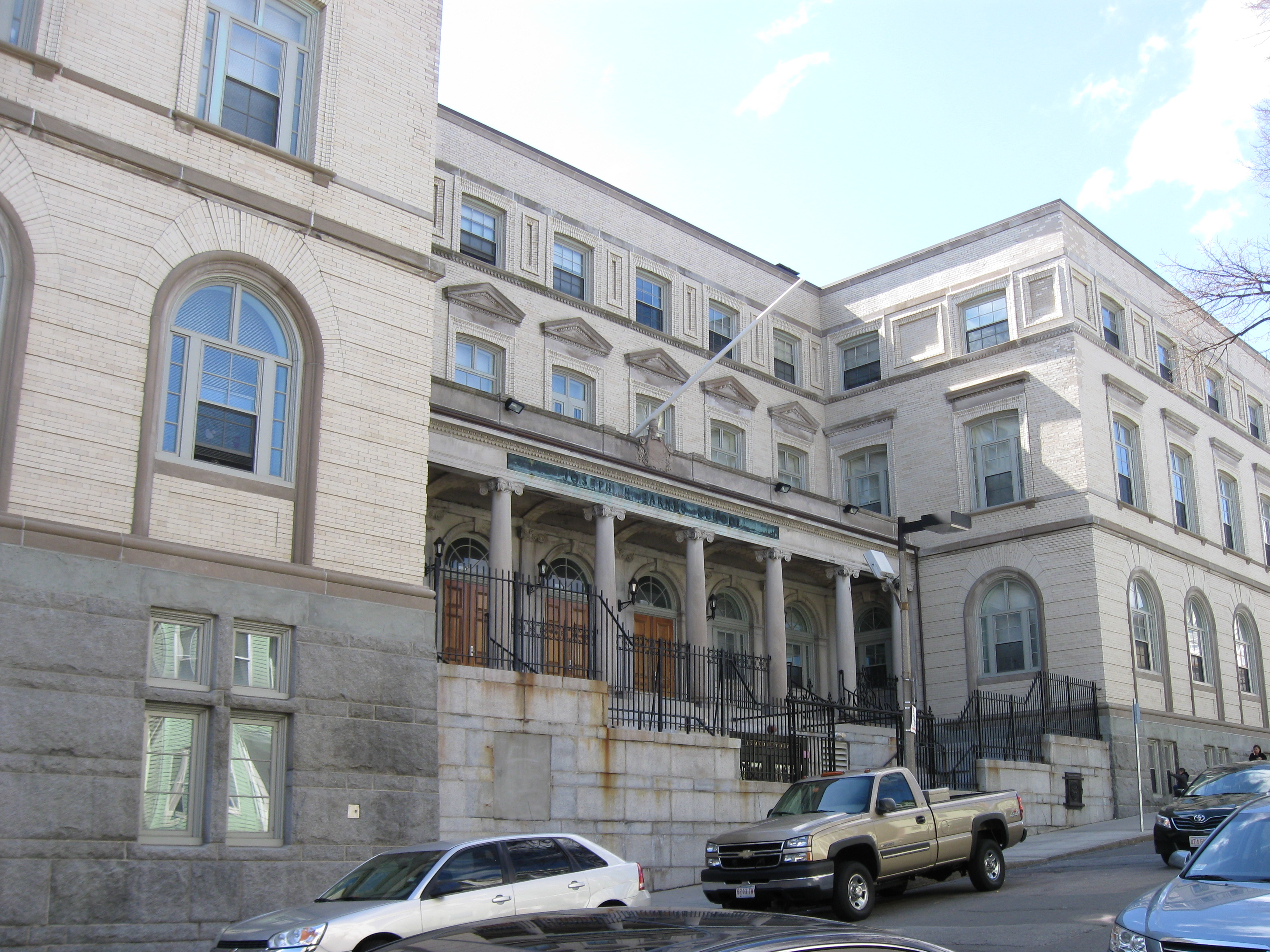 Old East Boston High School (Joseph H. Barnes School) --- 127 Marion Street, East Boston 02128